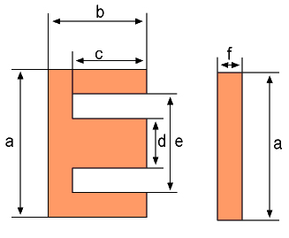 EI Lam